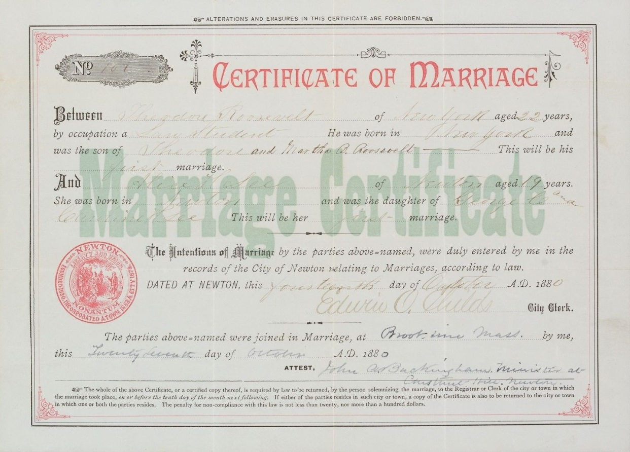 Certificate of marriage of Theodore Roosevelt and Alice H. Lee; Newton, October 14, 1880. MS Am 1541.9 (119), Alice Roosevelt Longworth family papers, 1878-1918, Theodore Roosevelt Collection, Houghton Library, Harvard College Library